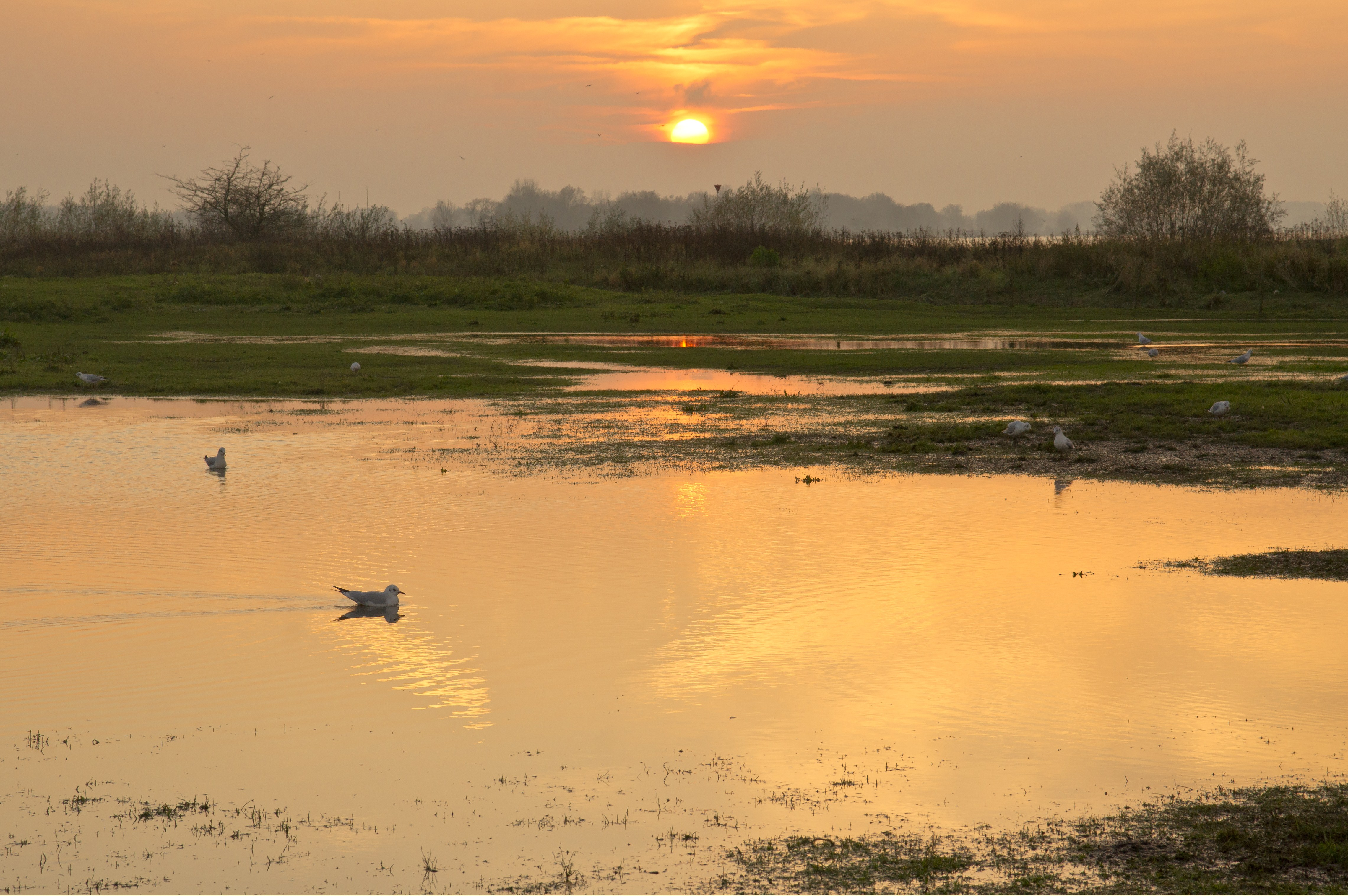 Sunset at the river Waal near Ochten - the Netherlands